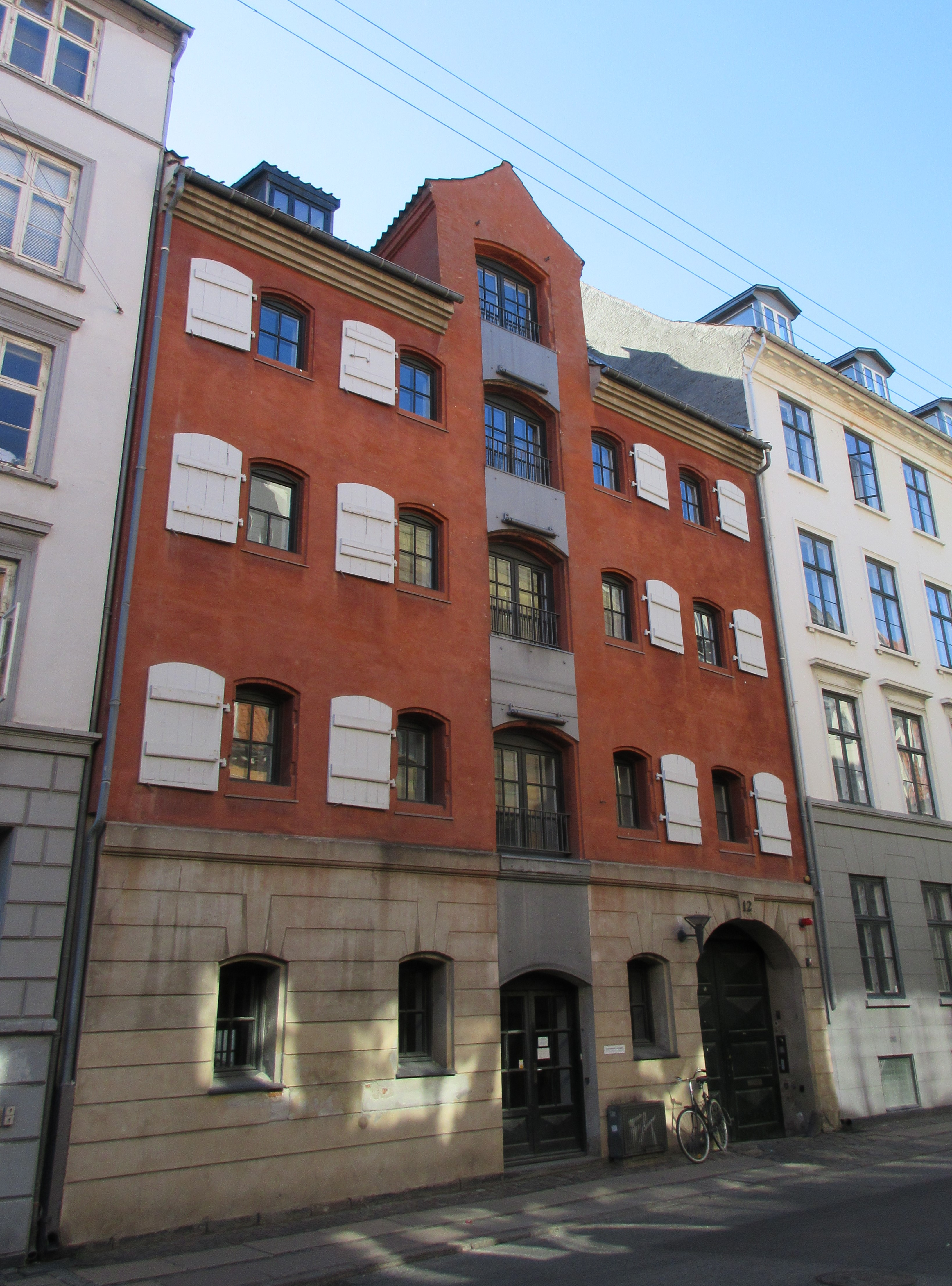 Toldbodgade 12 in Copenhagen, Denmark